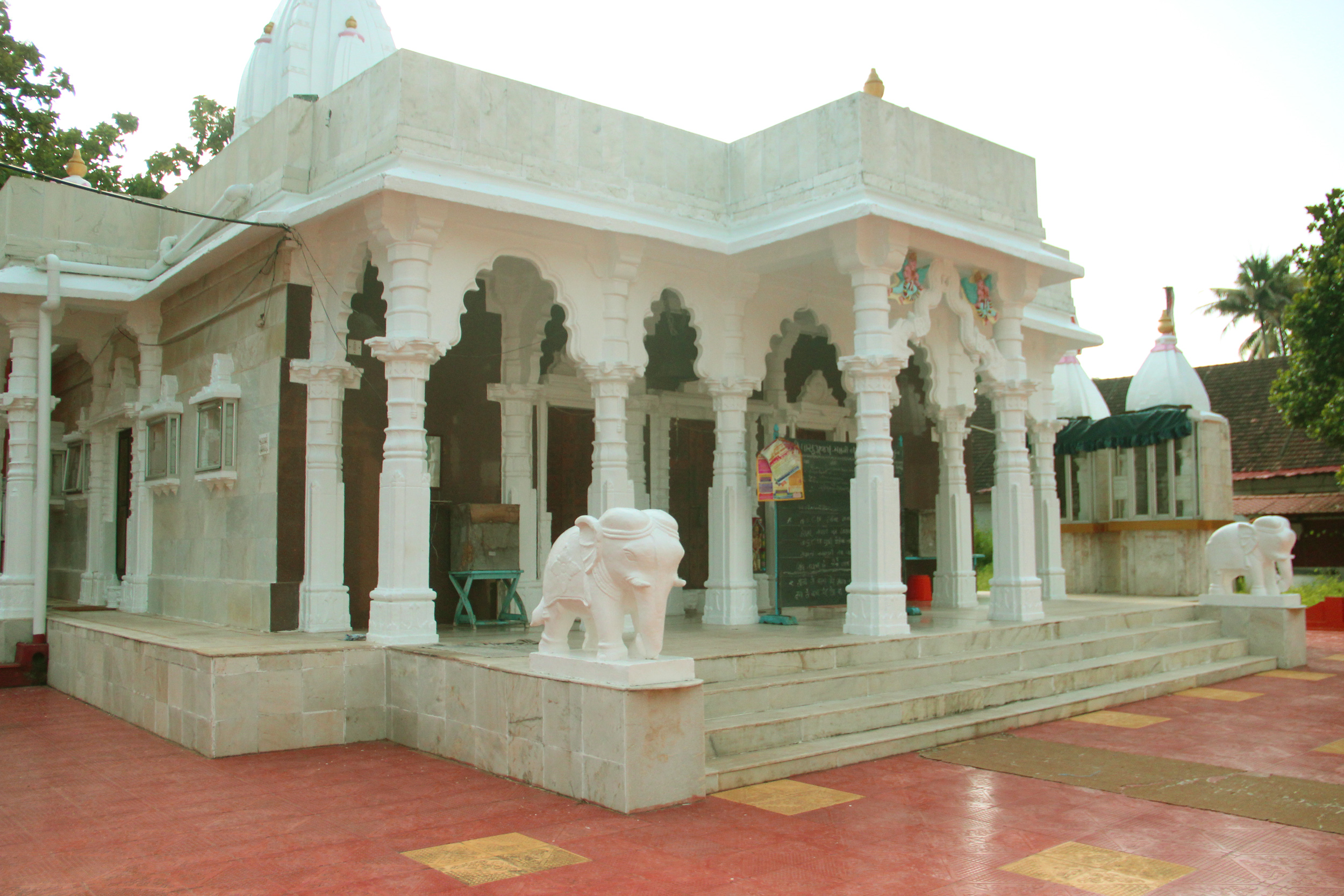 Jain Temple Alleppey image.